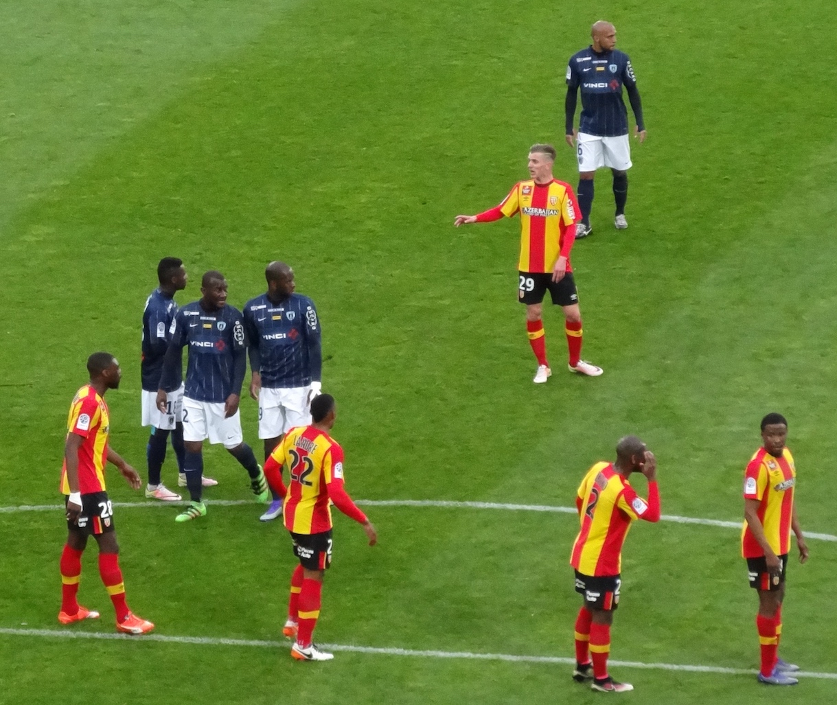 RC Lens - Paris FC 2016